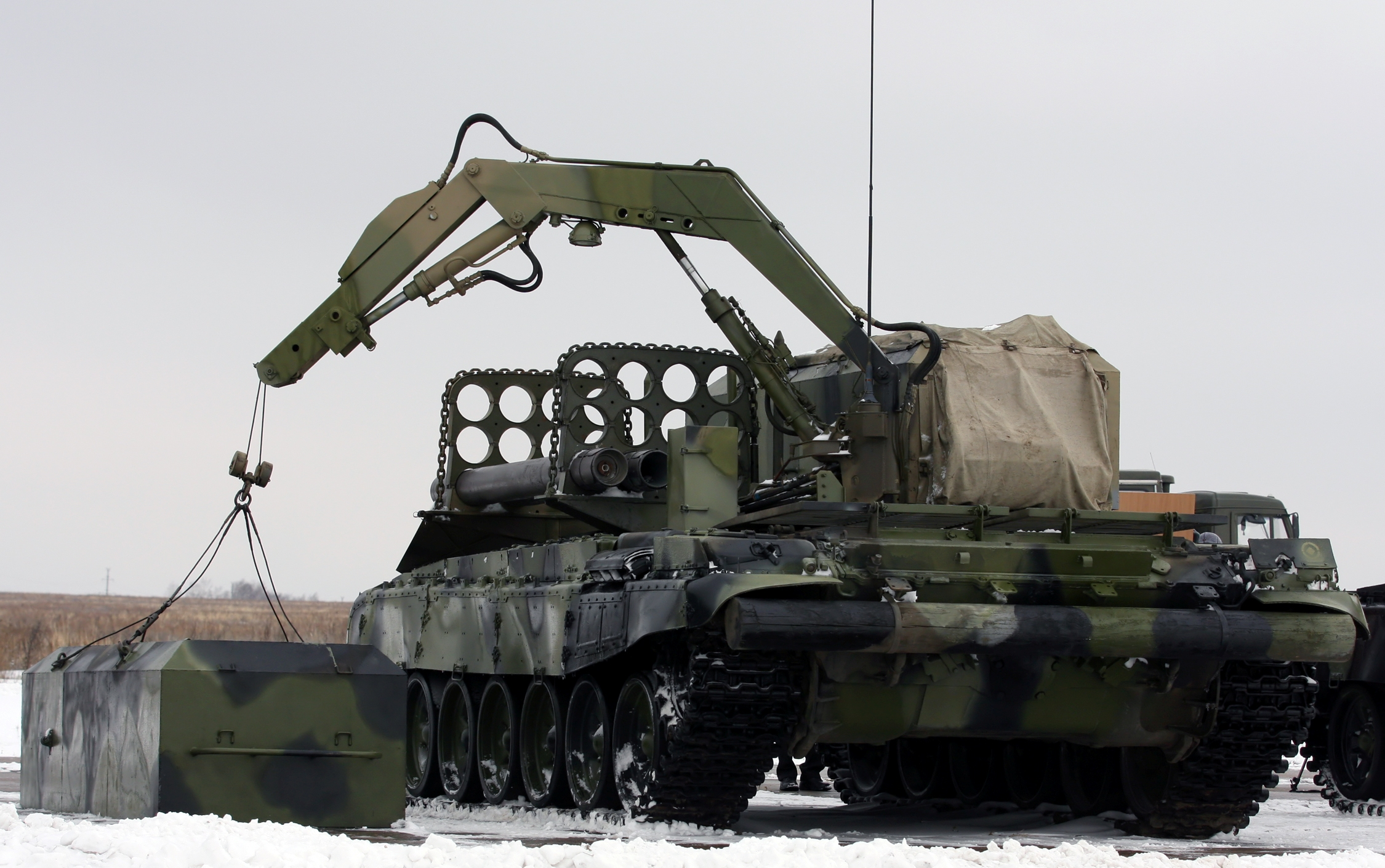 Reloading vehicle TZM-T of the TOS-1A system.